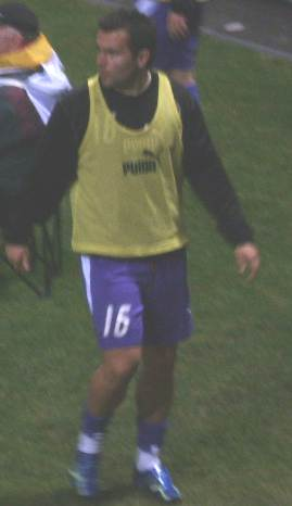 Csaba Regedei Hungarian association football player in Zalaegerszeg.